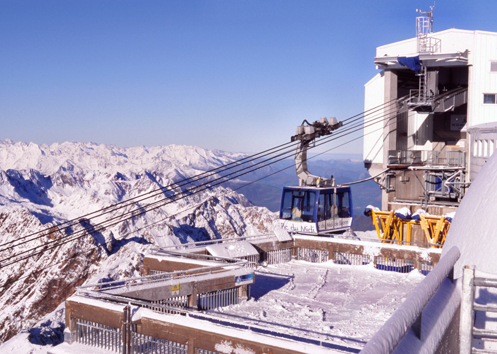 Cableway station, Pic du Midi, Hautes-Pyrenees, France